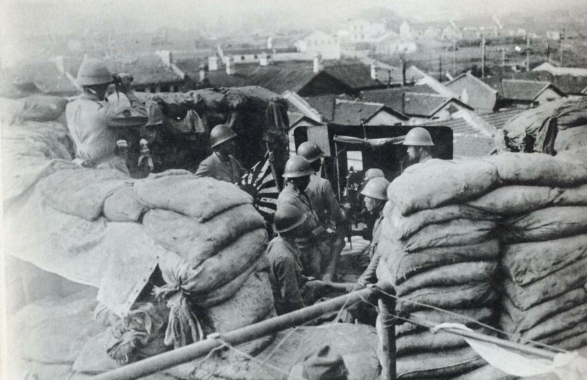 Special Naval Landing Force（海軍特別陸戦隊 Kaigun Tokubetsu Rikusentai）.